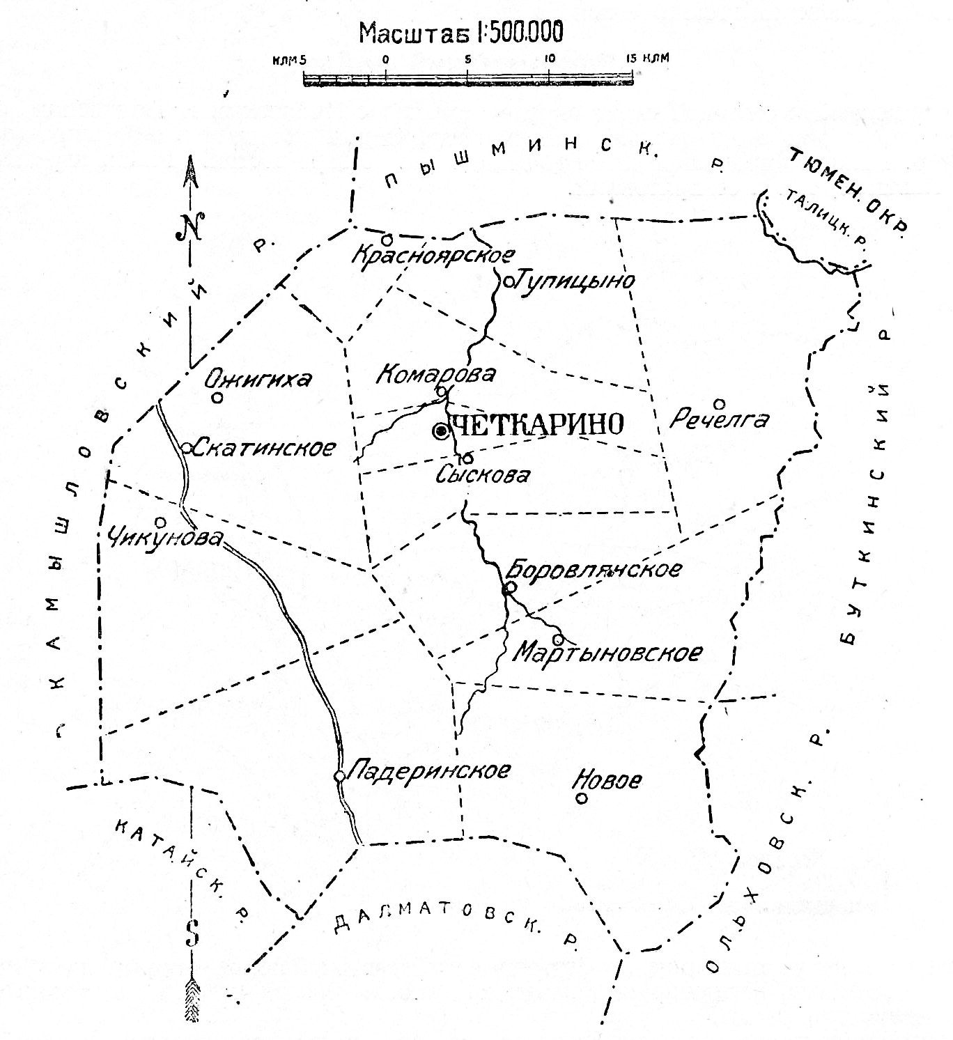 Map of Chetkarinskiy rayon (Shadrinskiy okrug of Uralic Region of RSFSR) in 1928.